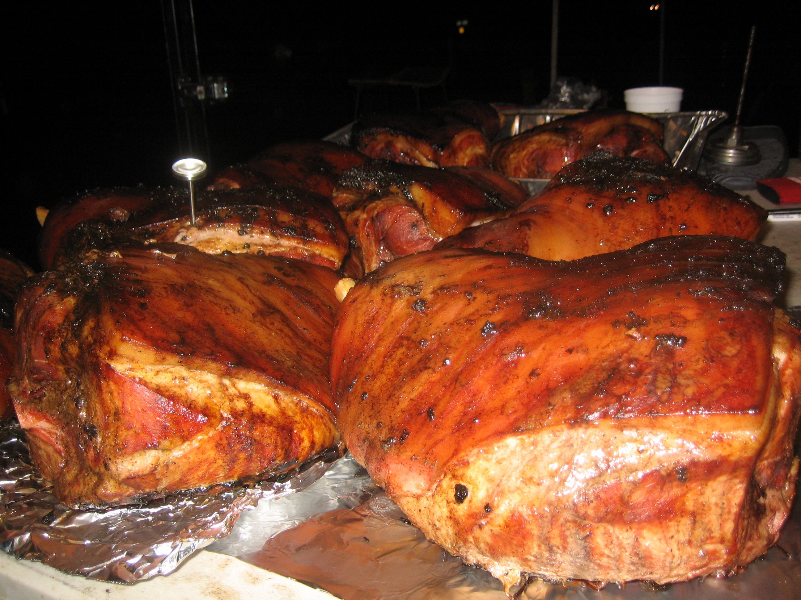 BBQ smoked pork shoulders (Boston butt roasts)